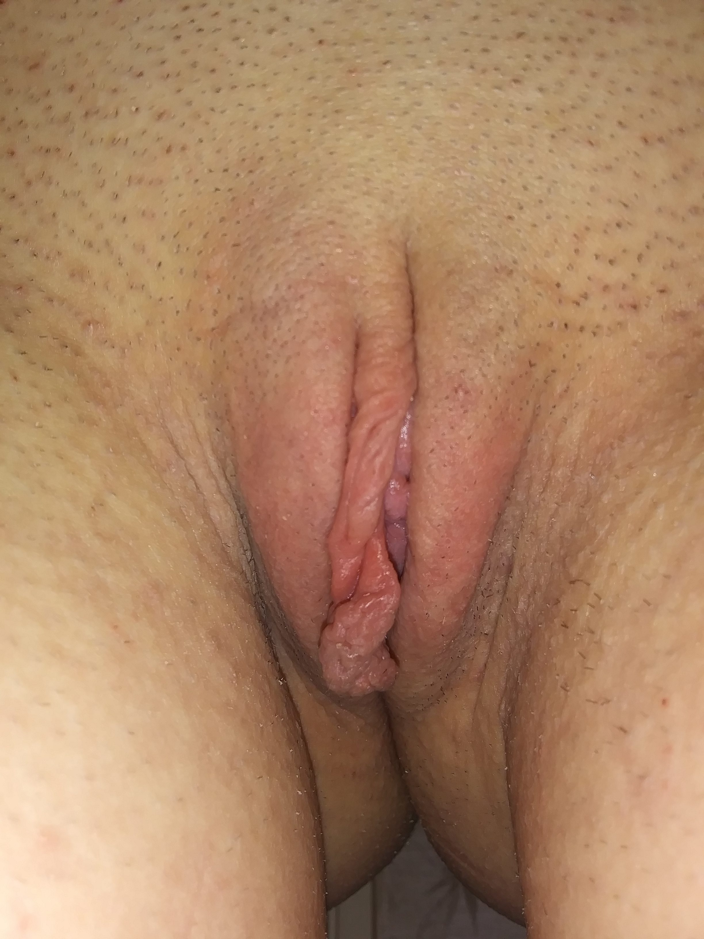 Vulva with enlarged right labium minorum.